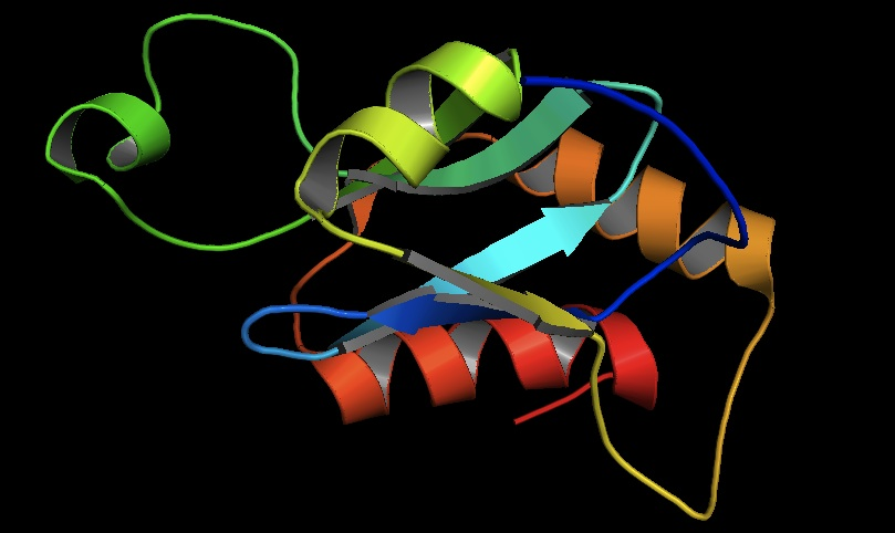 ADPLA protein structure